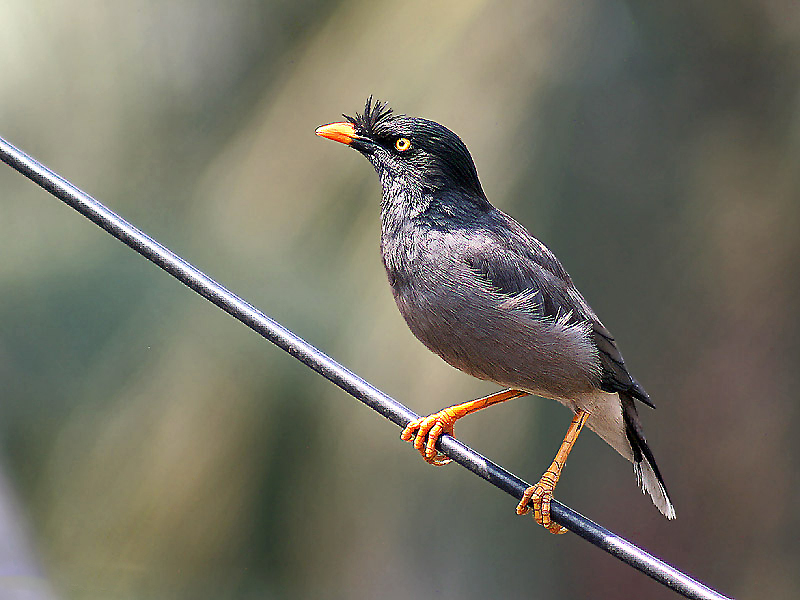 Jungle Myna Acridotheres fuscus in Kolkata, West Bengal, India.